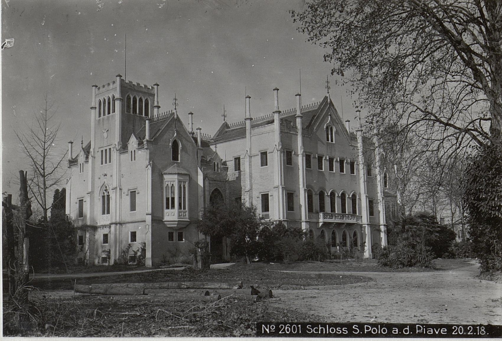 Schloss S.Polo a.d. Piave 20.2.18.